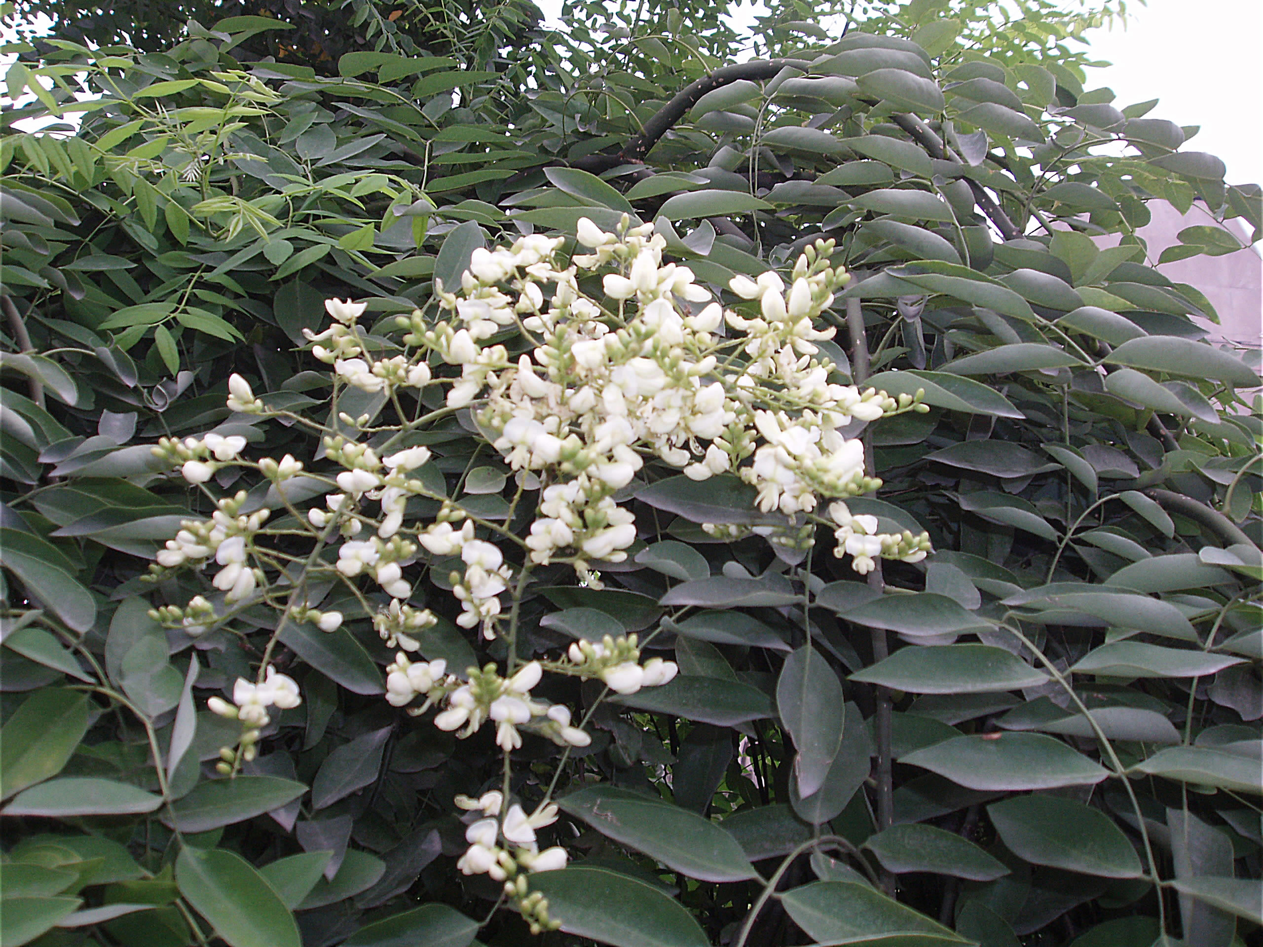 Flowers of pagoda tree